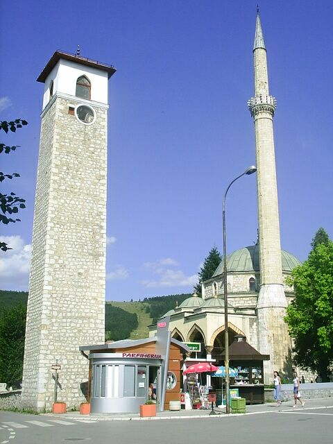 Husejn-Paša's mosque in Pljevlja, 16th Century, Montenegro